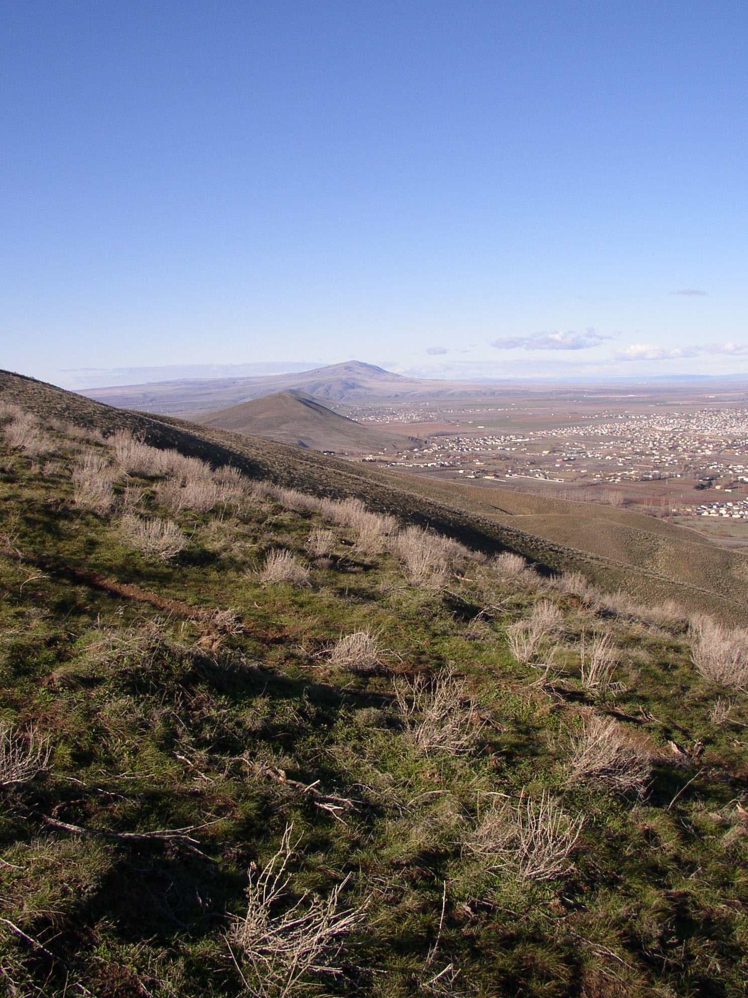 Photos of Richland, Washington taken on a lovely 50°F Sunday, January 15, 2006 for the specific purpose of being uploaded to the Wikipedia. All rights are released; they are henceforth & forever in the public domain until the sun does not rise in the east and the rivers no longer run to the sea. The view from Badger Mountain Centennial Preserve shows Red Mountain in the foreground and Rattlesnake Mountain beyond it. The 1.2-mile long, 800-foot in elevation trail on Badger Mountain is a new reserve within the city boundary or Growth Management Area for Richland. It was built by Volunteers who broke new trail by hand in October 2005. Community members from Richland and the surrounding area secured protection for this important area above the Tri-Cities. The Friends of Badger Mountain acquired the property, preserving it for the public. The Trust for Public Land, Benton County, the City of Richland and the Friends of Badger Mountain worked together to buy 574 acres to create the Badger Mountain Centennial Preserve, to be maintained in its natural state. RichlandWaBadgerTrail-C.jpg